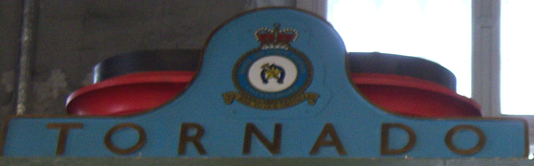 60163 Tornado name plate